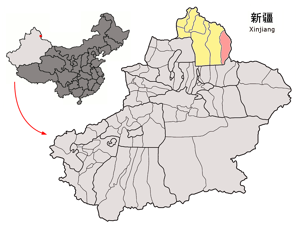 Location of Qinggil County (pink) and Altay Prefecture (yellow) within Xinjiang autonomous region of China Map drawn in september 2007 using various sources, mainly : Xinjiang Uygur autonomous region administrative regions GIS data: 1:1M, County level, 1990 Xinjiang Counties map from